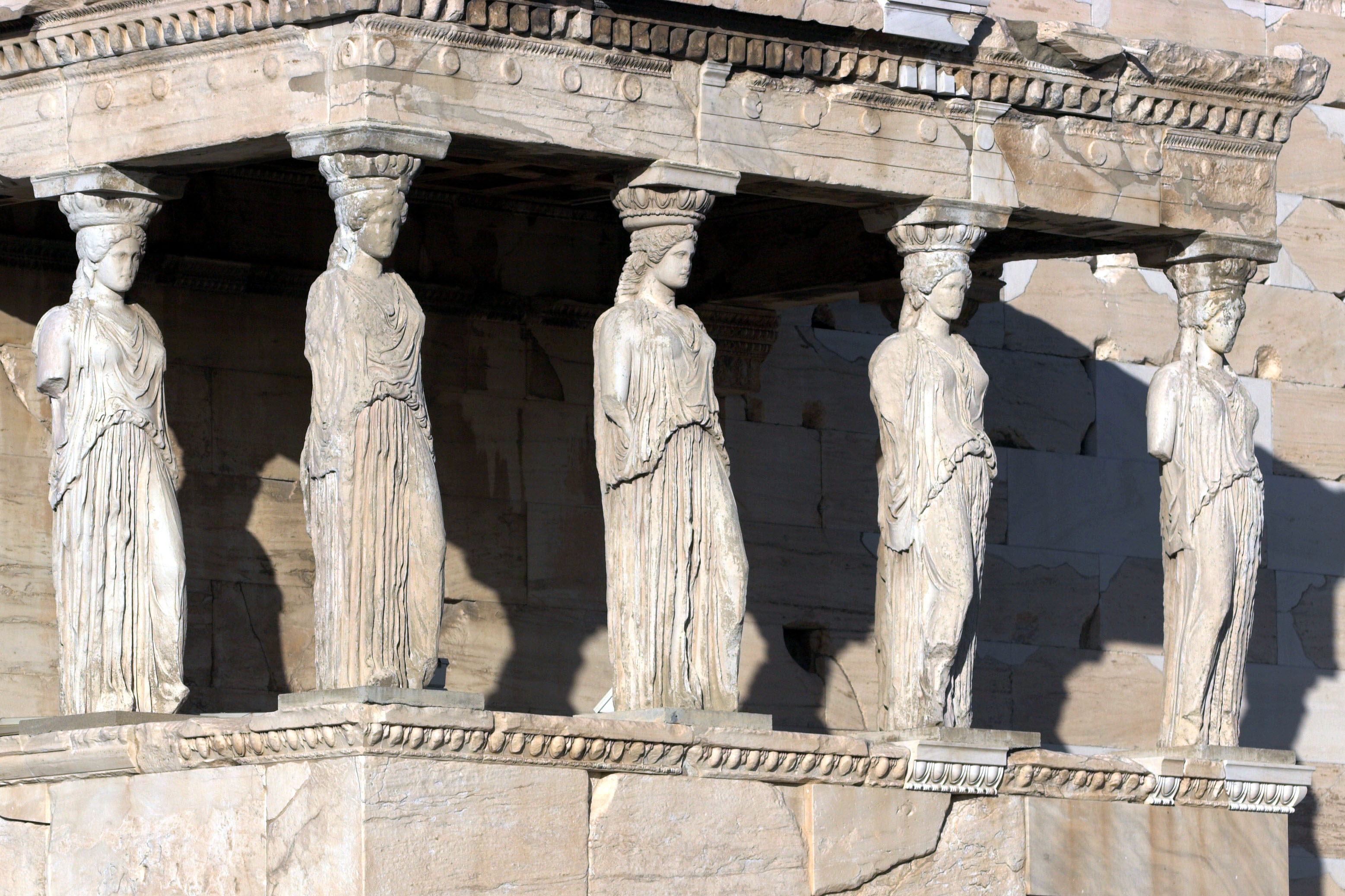 The Porch of Maidens at Erechteum. Photography by Thermos.